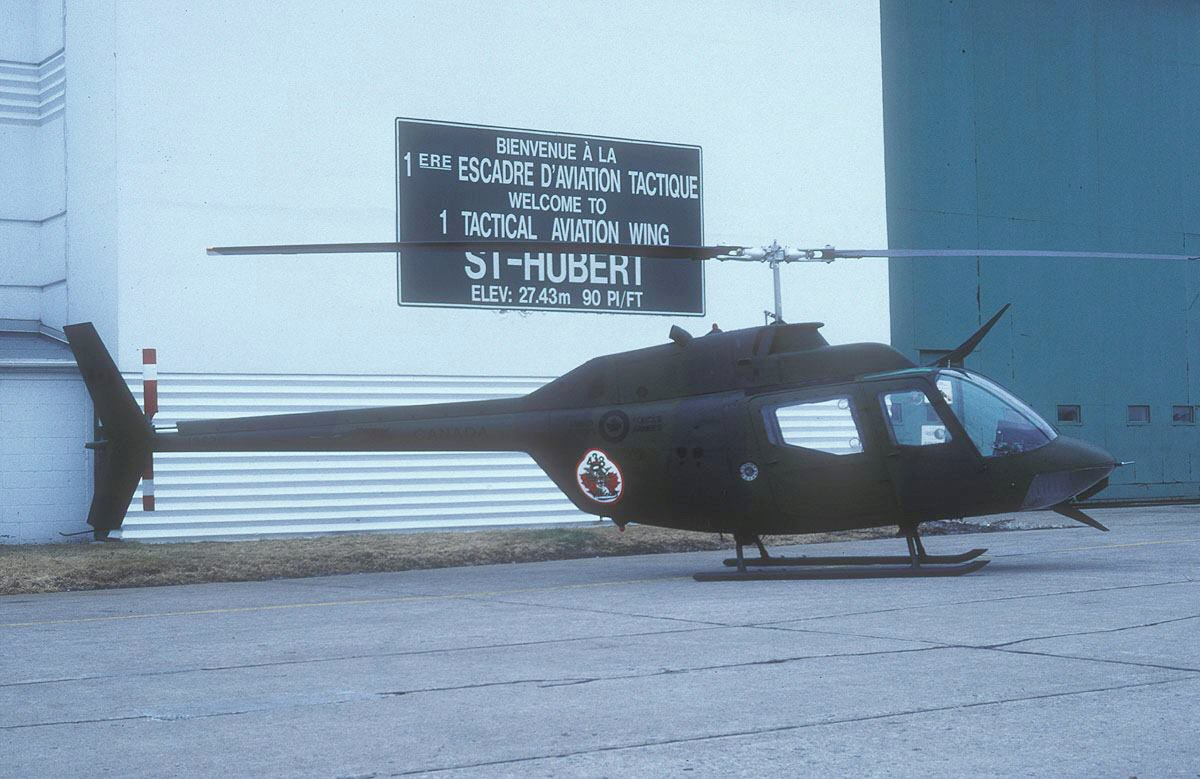 Ch-136 Kiowa LOH from 438 Tactical Helicopter Squadron RCAF circa 1995